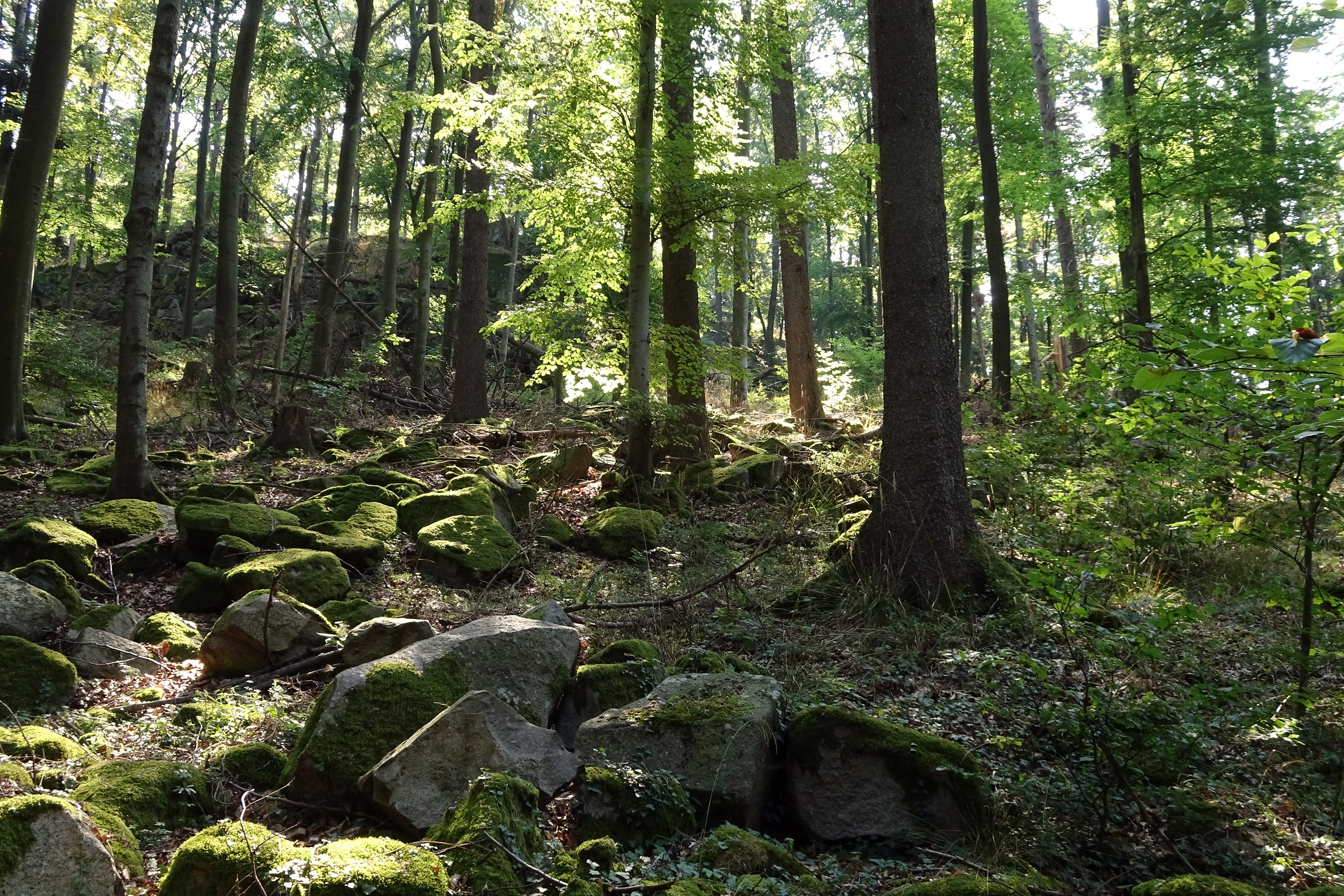 Special area of conservation "Buchenwälder des vorderen Odenwaldes", slope of the Rimdidim mountain east of Fischbachtal-Steinau (Landkreis Darmstadt-Dieburg, Hesse, Germany).